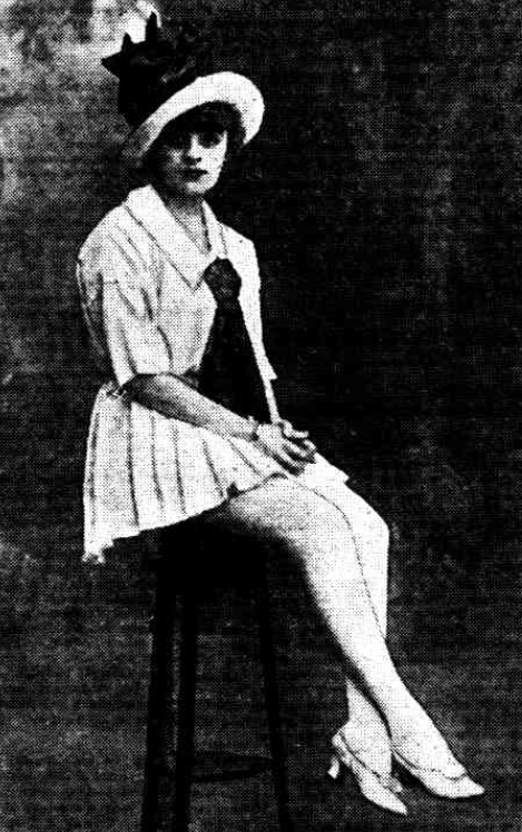 Queenie Paul in costume as 'Jack' the principal boy in 1917 Bunyip pantomime